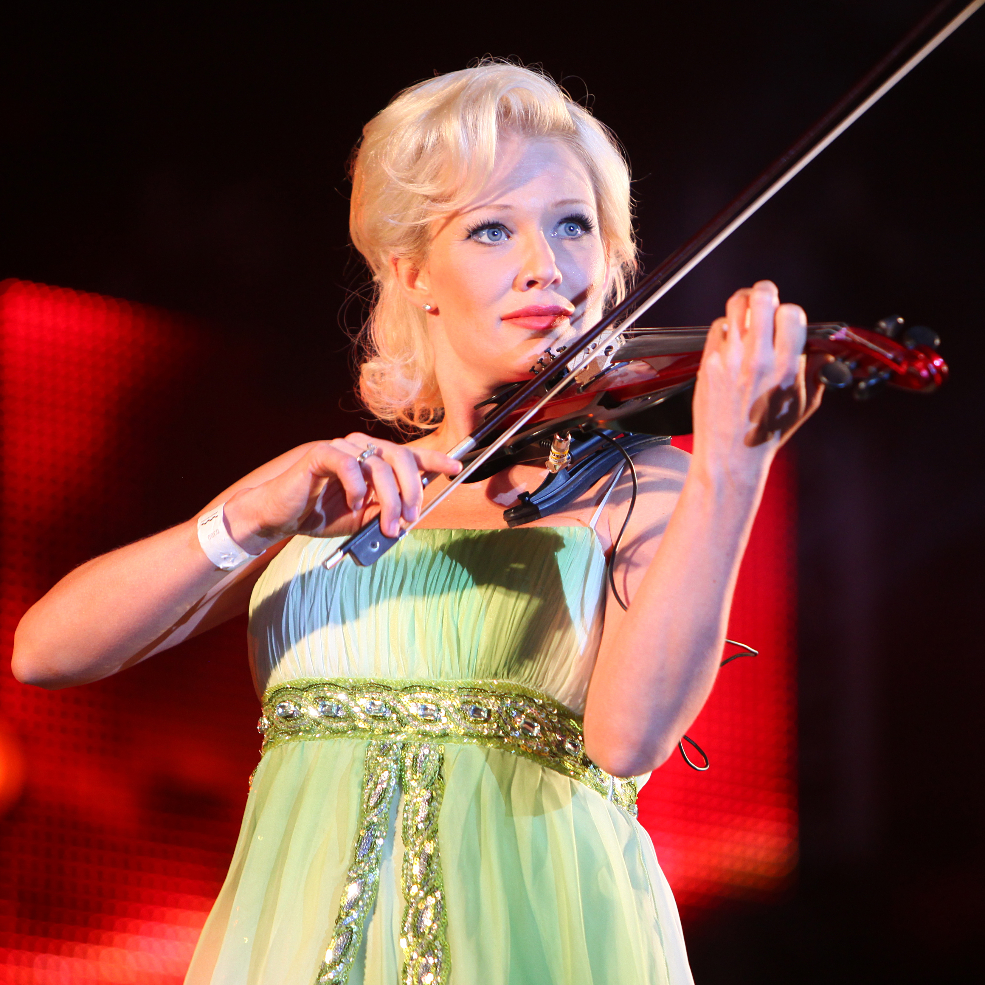 Linda Lampenius performing on Stockholm Pride Festival, August 2009